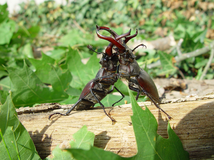 Lucanus cervus